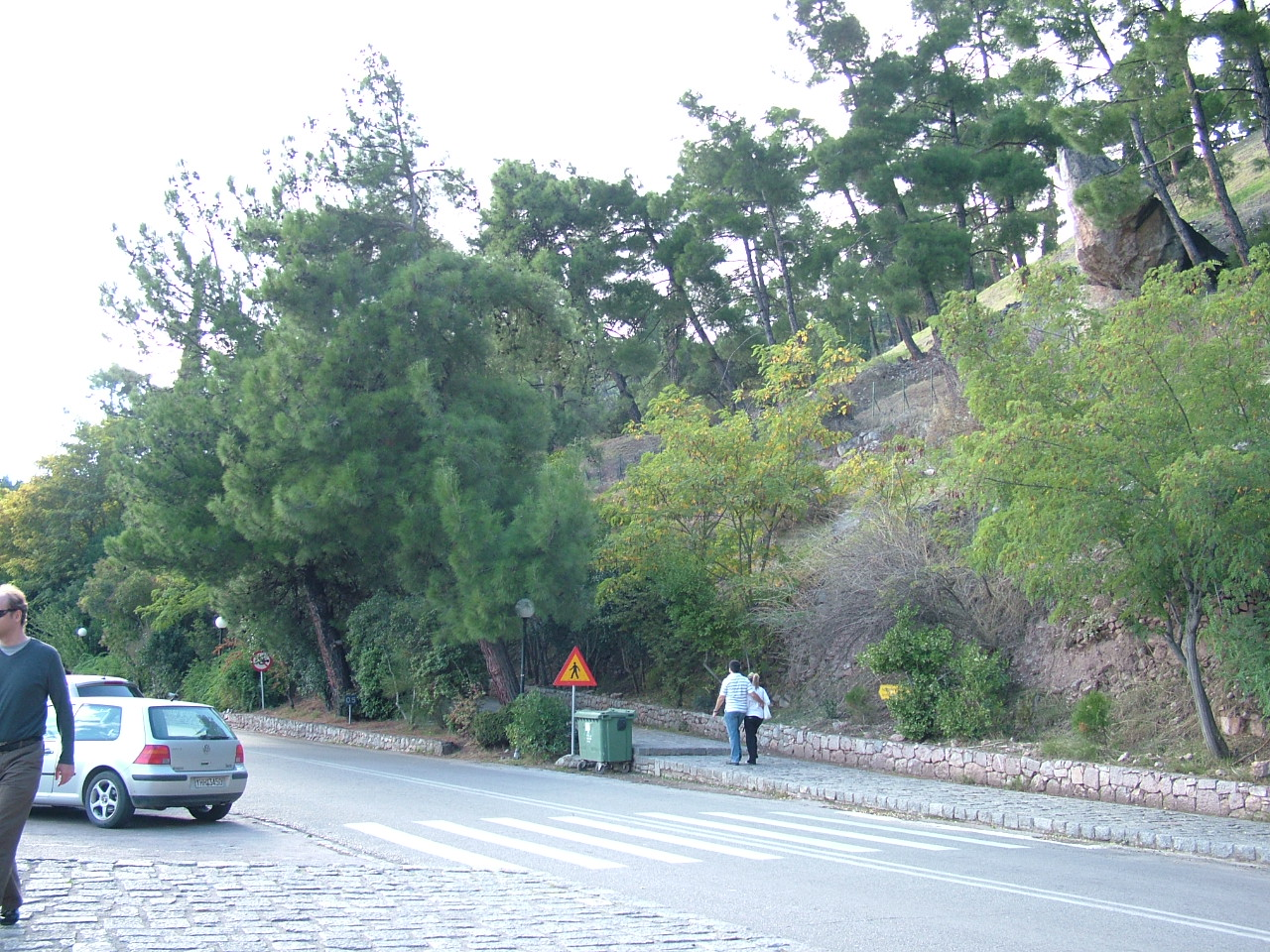 Road leading to the Delphi museum